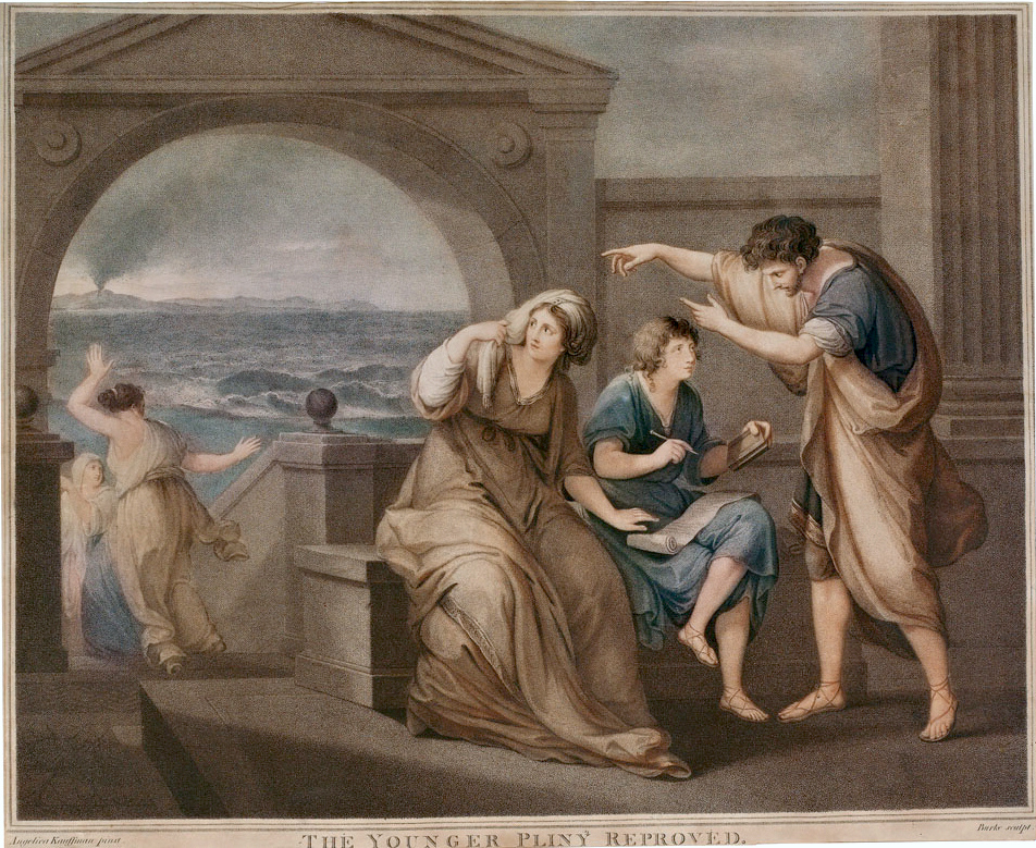 The Younger Pliny Reproved, colorized copperplate print by Thomas Burke (1749–1815) after Angelica Kauffmann; c. 39 x 45 cm